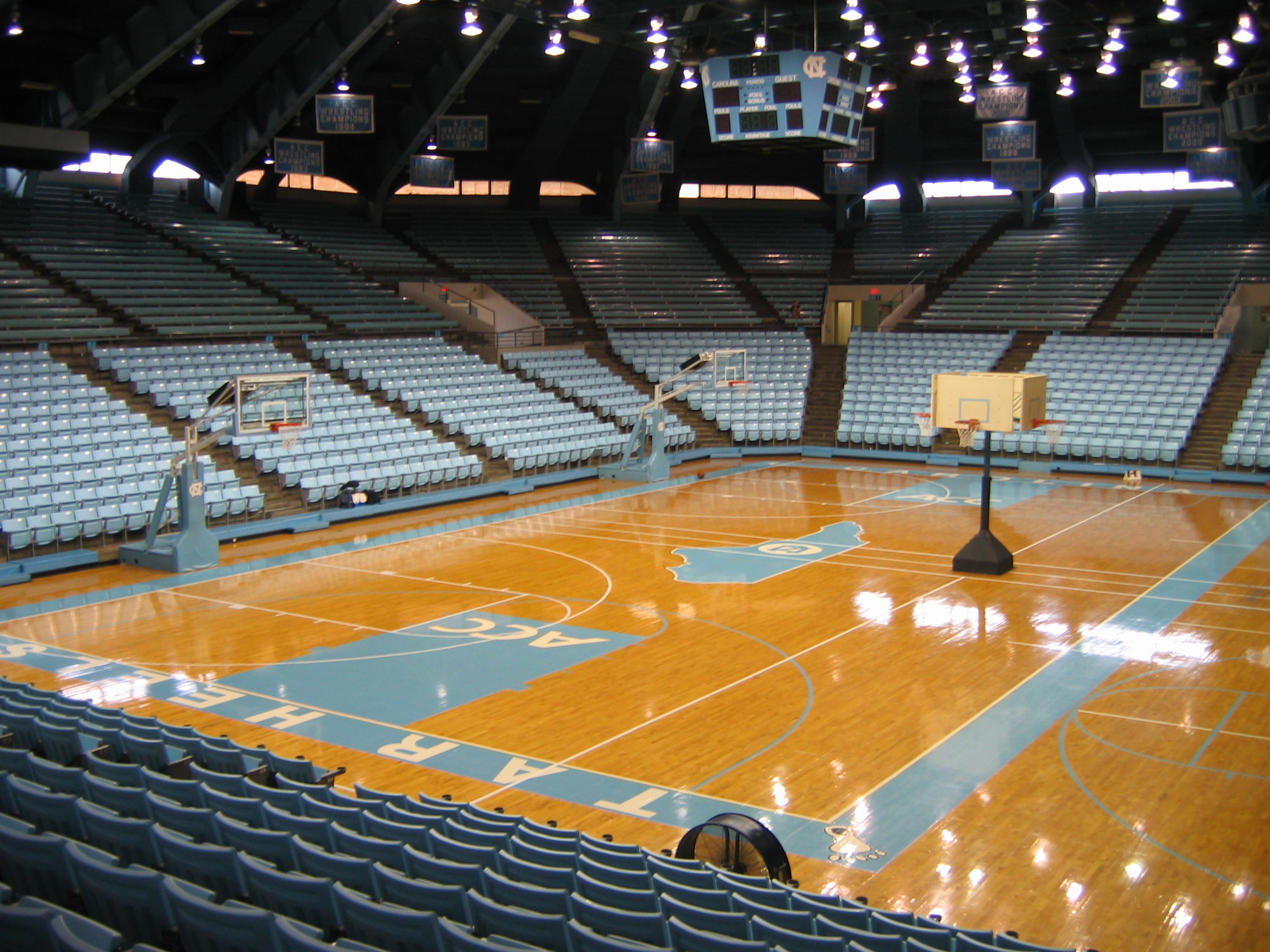 picture taken July 2006 with Canon A80